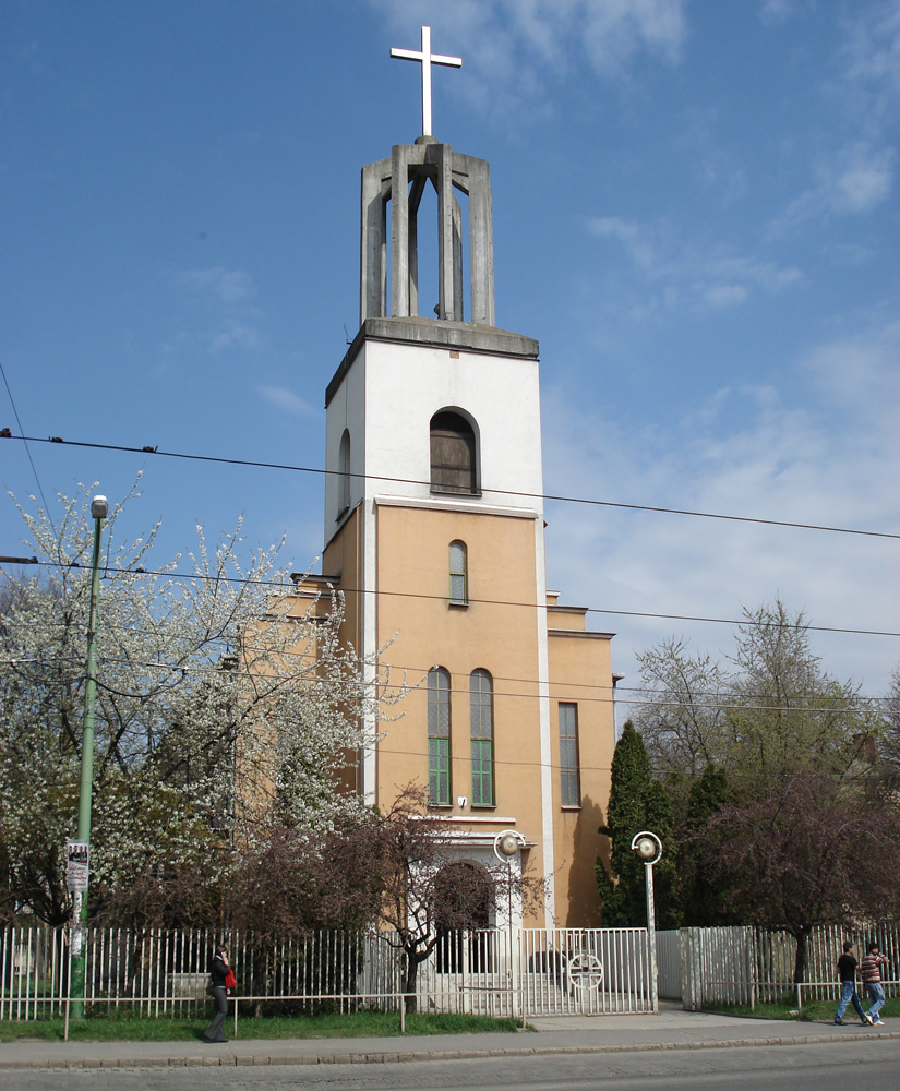 Roman Catholic church Selyemrét, Miskolc, Hungary